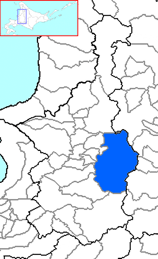 The location of Ashibetsu in Sorachi Subprefecture, Hokkaido Prefecture, Japan.